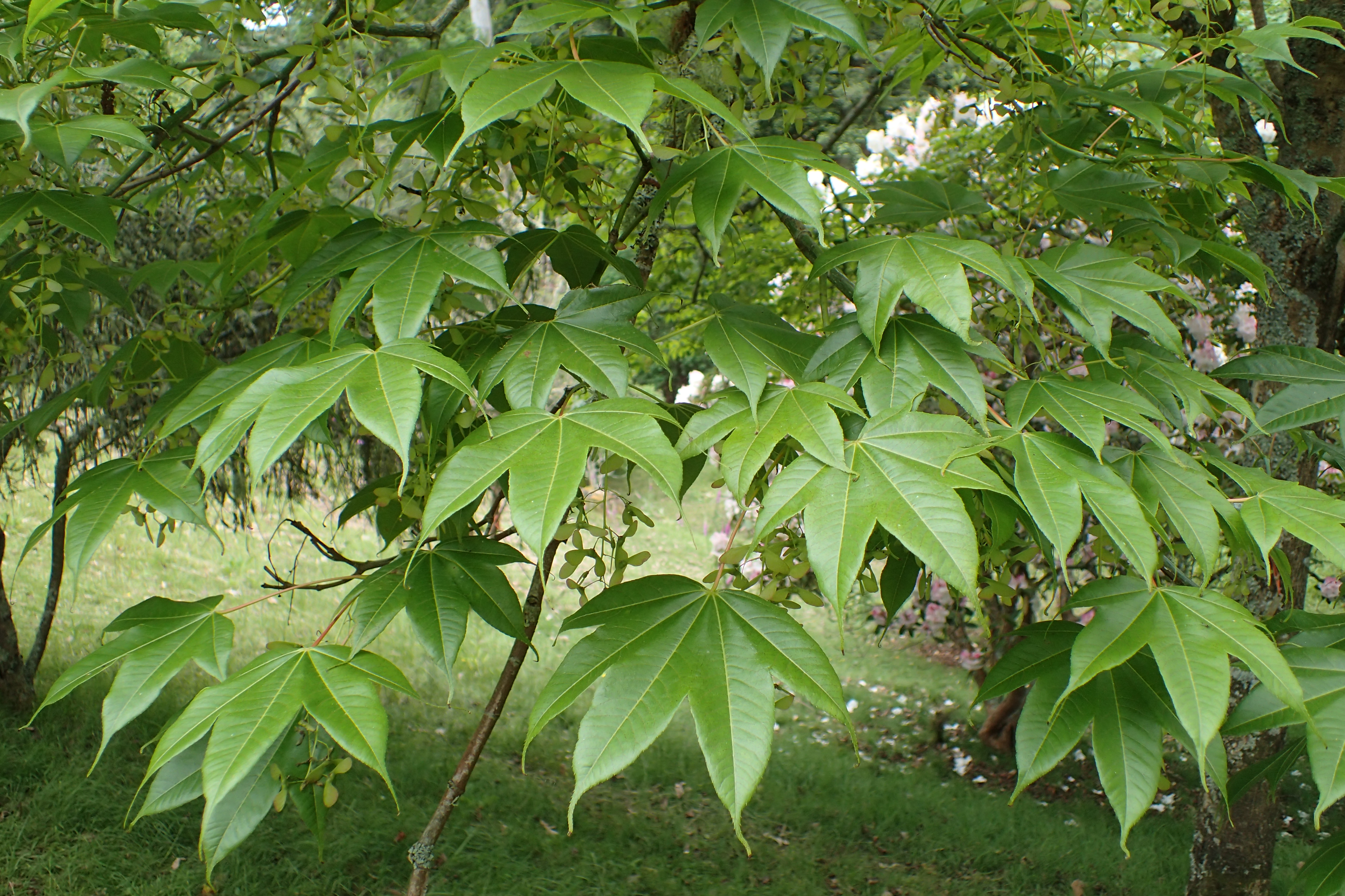 Acer campbellii in Hackfalls Arboretum, Hawkes's Bay, NZ